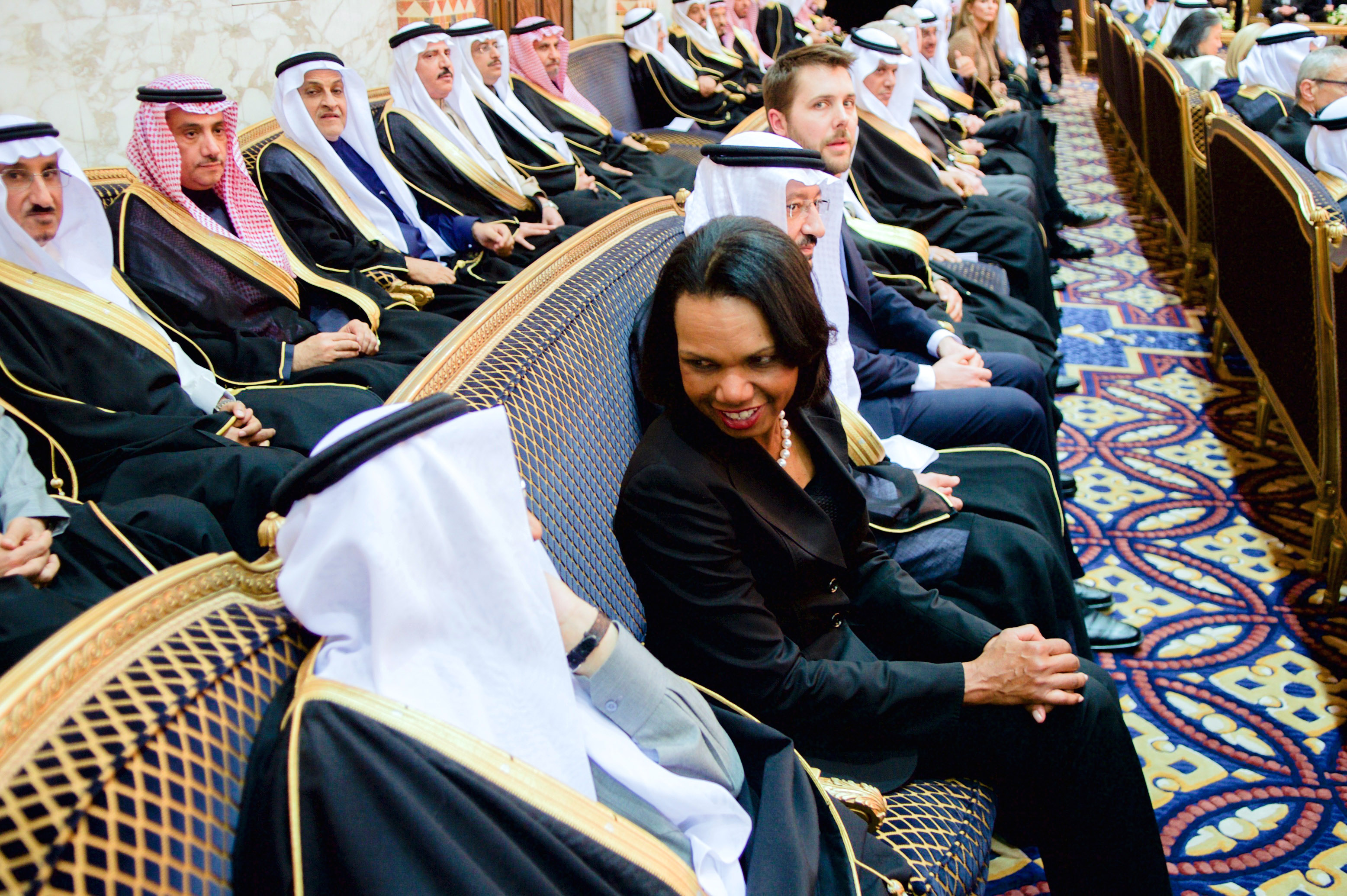 Former U.S. Secretary of State Condoleezza Rice chats with a member of the Saudi Royal Family after welcoming the new King Salman of Saudi Arabia at the Erqa Royal Palace in Riyadh, Saudi Arabia, on January 27, 2015, and after joining President Obama, First Lady Michelle Obama, U.S. Secretary of State John Kerry, and other dignitaries in extending condolences to the late King Abdullah. [State Department photo/ Public Domain]